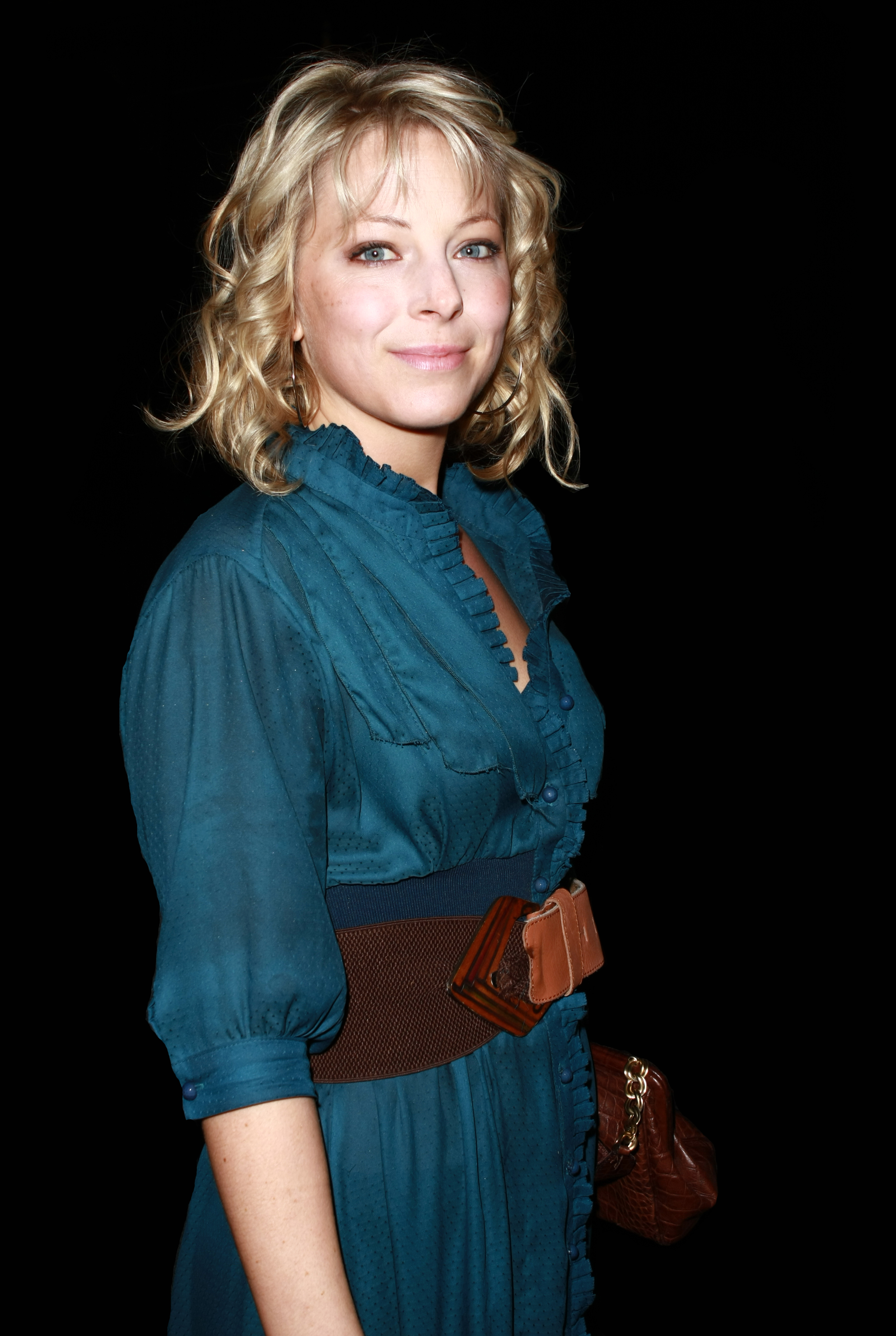 Actress Anastasia Griffith arrives at the "Lipstick Jungle" Premiere at Saks Fifth Avenue, New York City, New York, January 31, 2008.